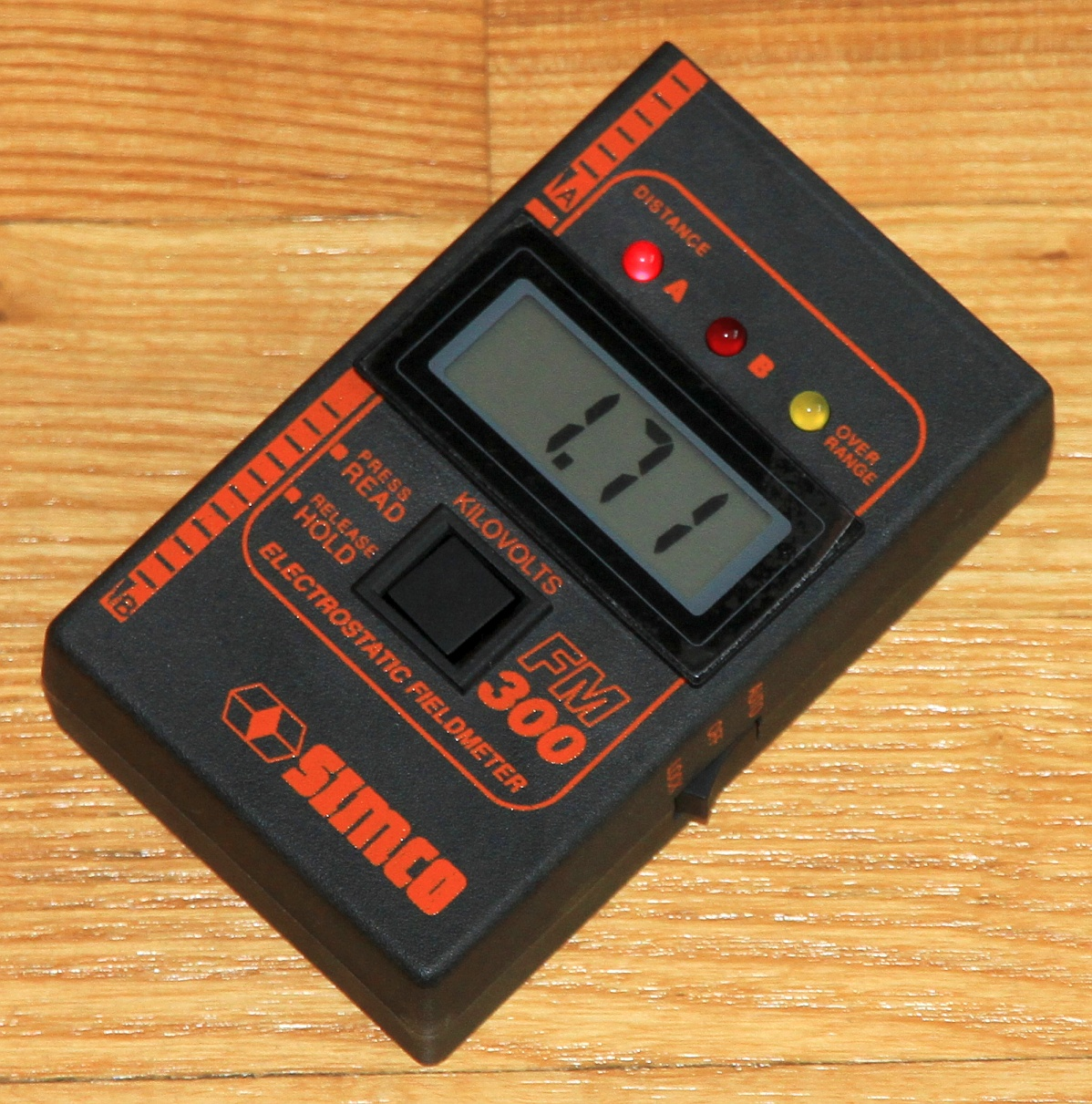 Simco FM300. Late 1980's digital electrostatic fieldmeter.